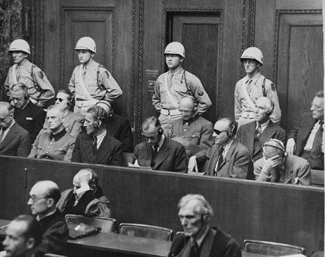 International Military Tribunal NurembergThe defendants in the dock at the International Military Tribunal trial of war criminals at Nuremberg.Date: Nov 20, 1945 - Oct 1, 1946Locale: Nuremberg, [Bavaria] Germany